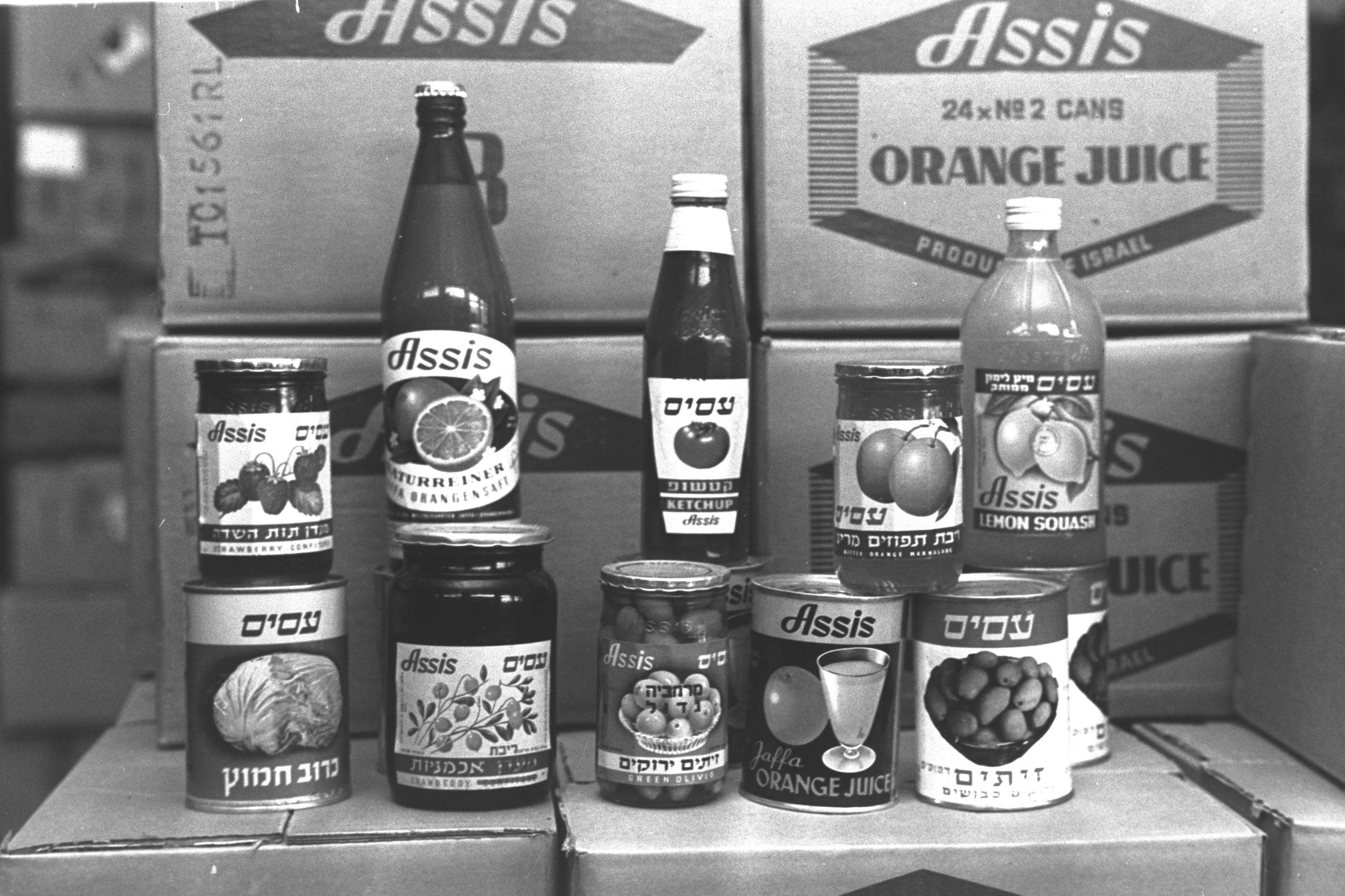 A SELECTION OF PRODUCTS PRODUCED BY THE "ASSIS" JUICE & FRUIT PRESERVE FACTORY IN RAMAT GAN.